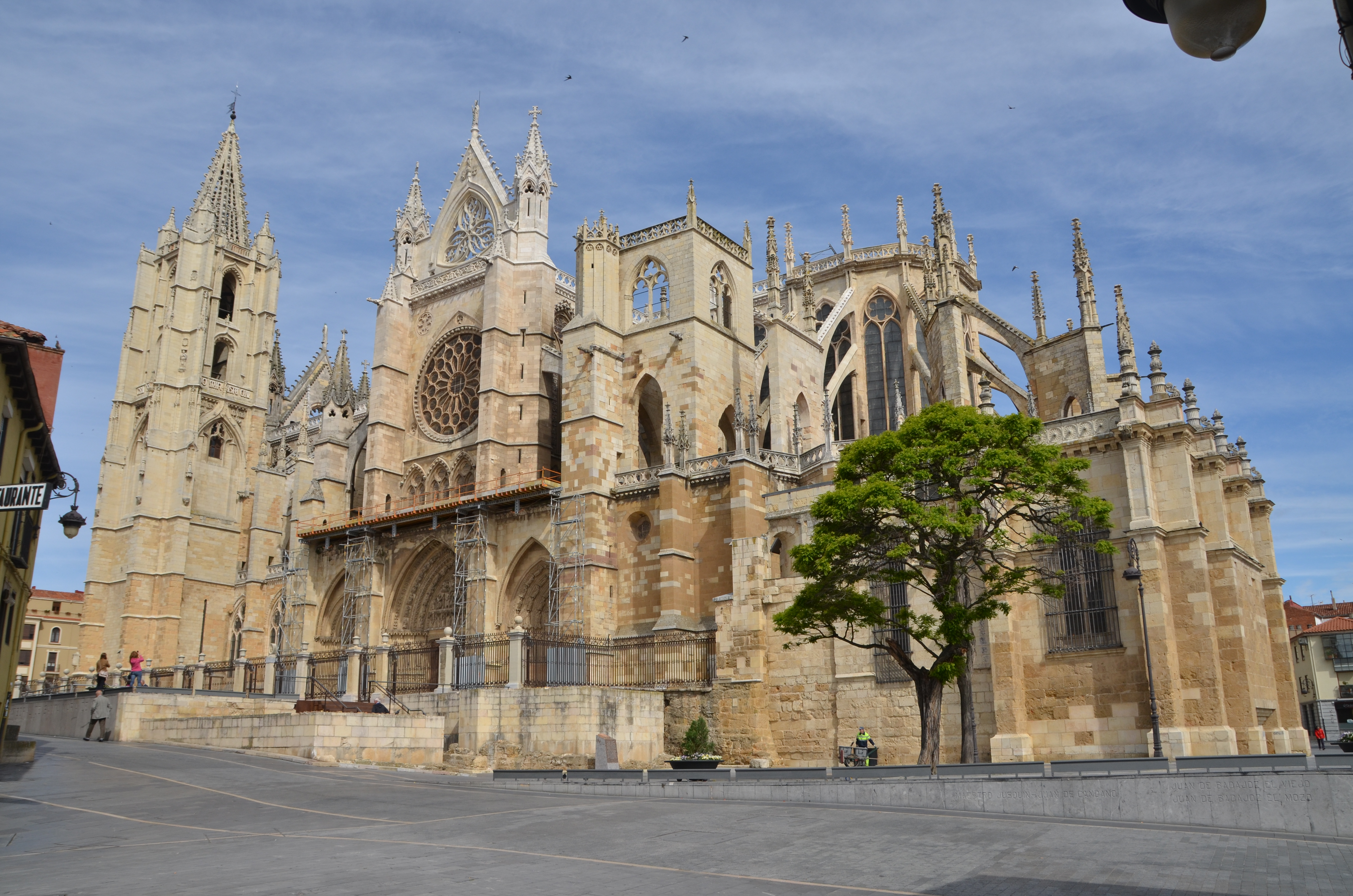 Leon Cathedral - Before the crowds!